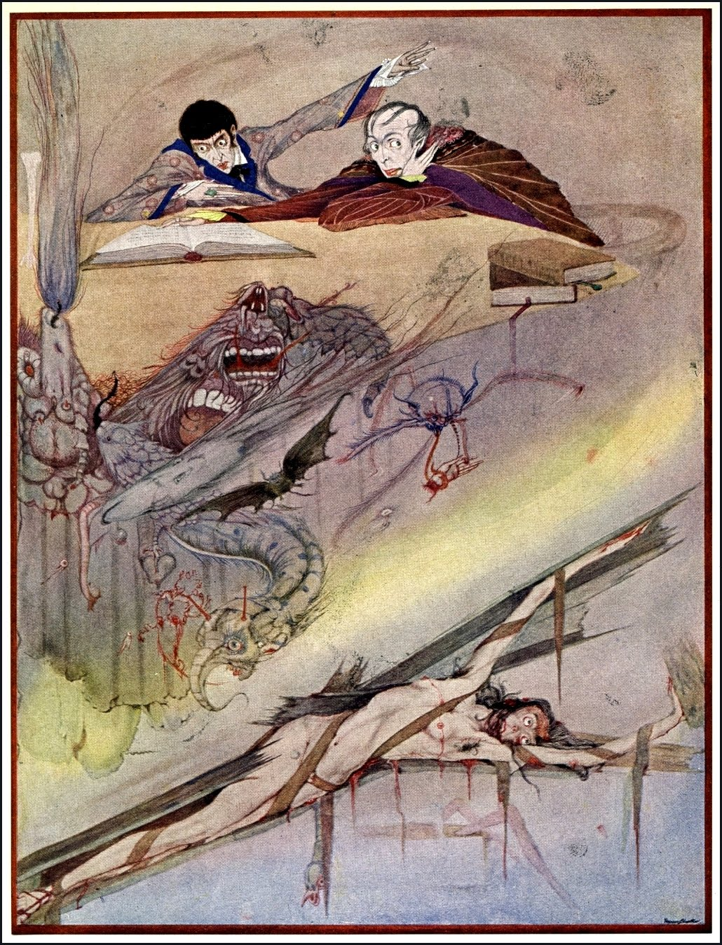 Harry Clarke, The Fall of the House of Usher. Say, rather, the rending of her coffin. (Illustration for Tales of Mystery and Imagination by Edgar Allan Poe.)